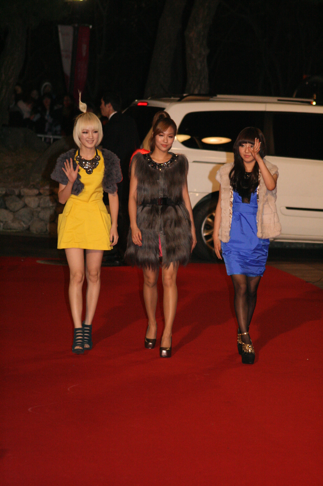 Miss A on 9 December 2009